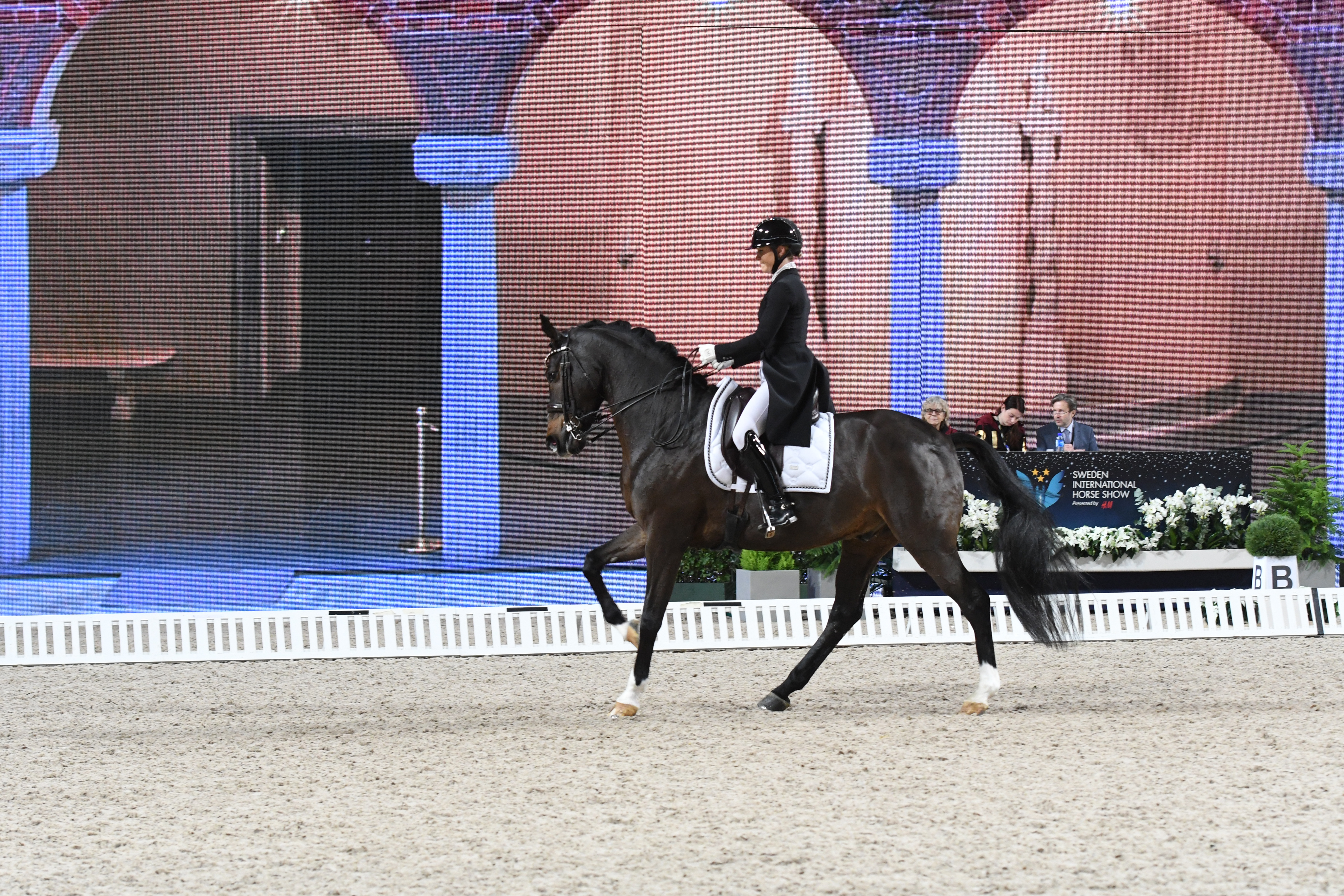 Emelie Nyeröd and Floppy Disc during Nat D - Dressage PFS Kür (Dressage Power Future Stars) during Sweden International Horse Show 2018.